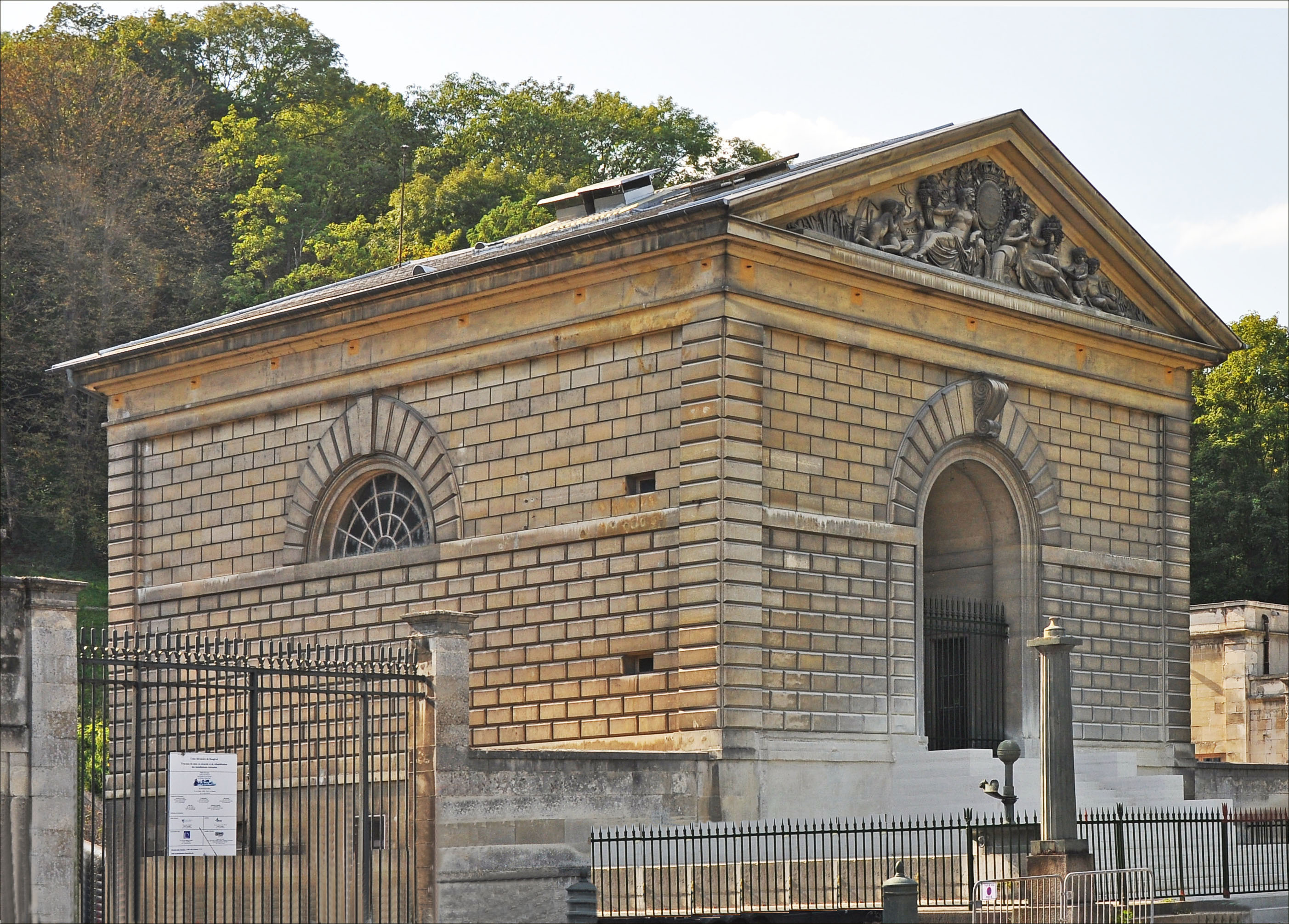 Marly Machines. Building of the steam engine of Cécile and Martin.